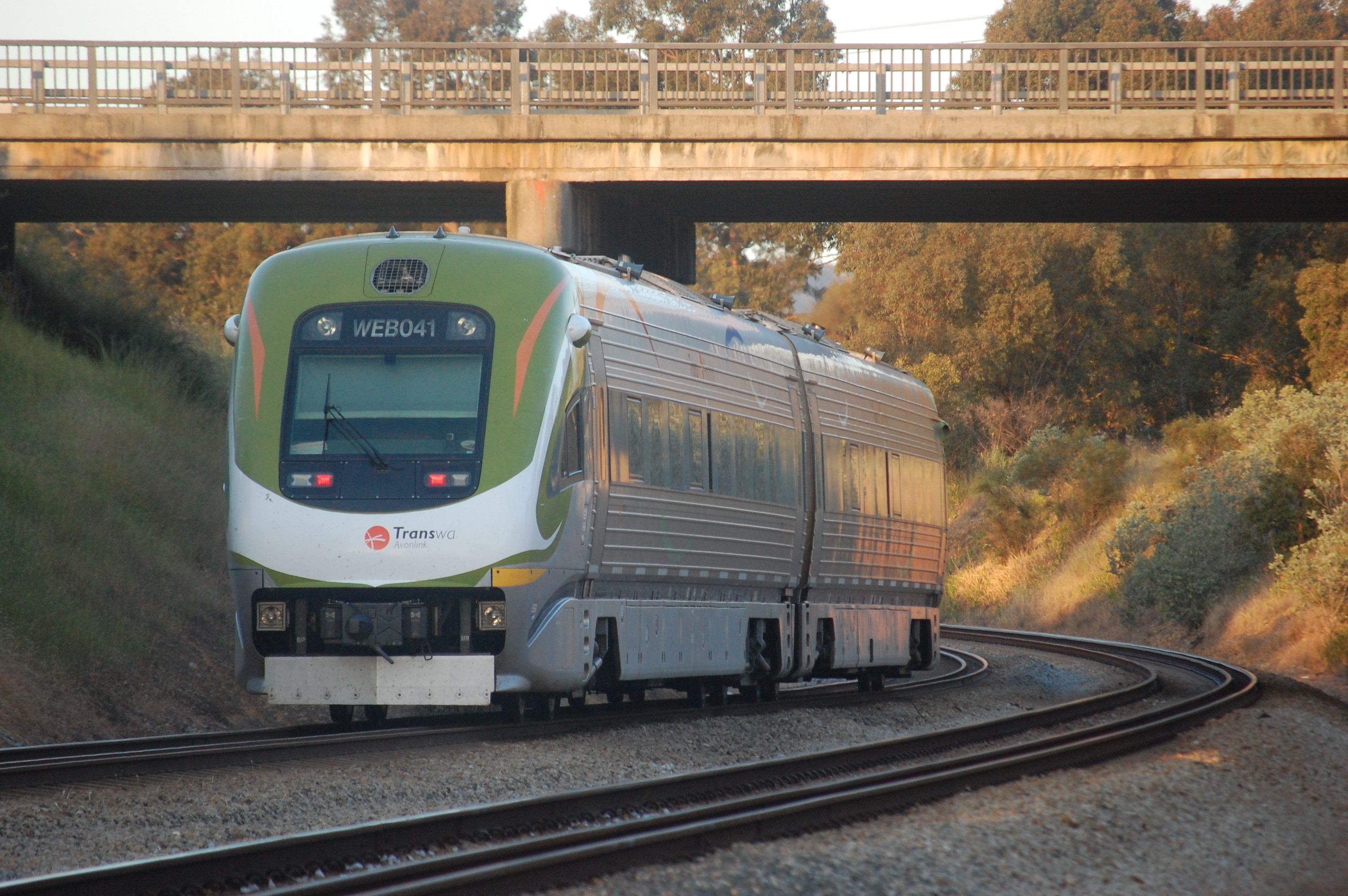 The Avonlink railcar going under the Great Eastern Highway bridge Bellevue, Western Australia